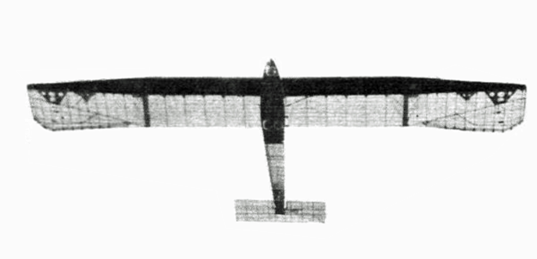 The Hannover Vampyr 1922 glider flying overhead